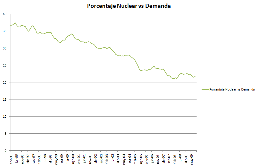 Percentage of Nuclear energy over electricity demand in Spain